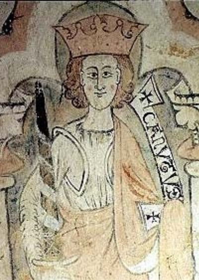 King Canute I of Sweden (†1196)